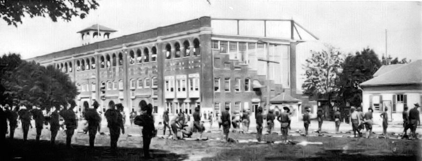 Training exercise in front of the Allentown Fairgrounds Granstand, Camp Crane, PA